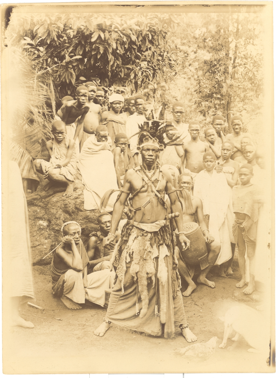 A Witchdoctor, c. 1910